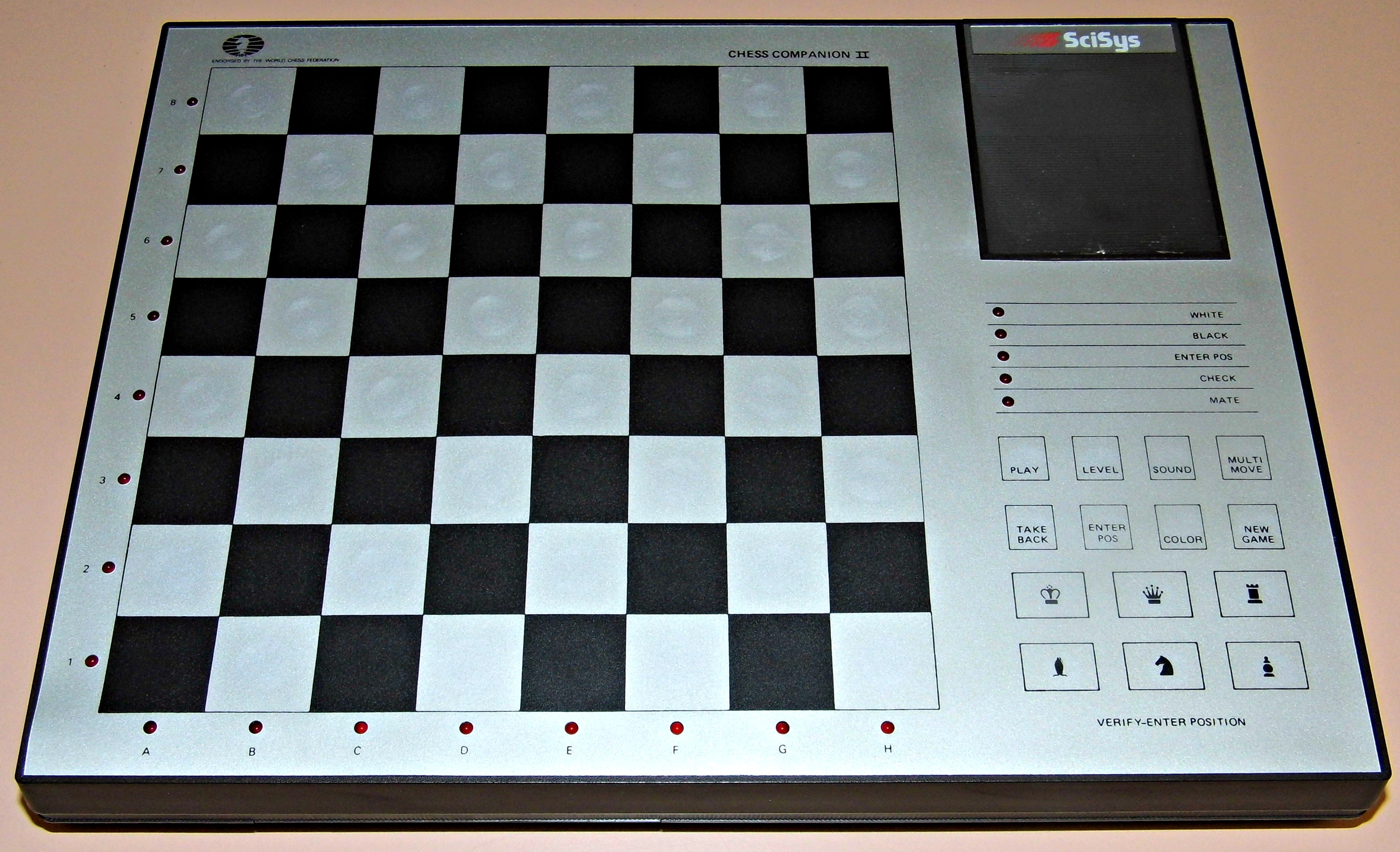 Vintage SciSys Electronic Chess Companion II, Model No. 204, Made In Hong Kong, Copyright 1983 from Flickr album "[ Vintage Handheld and Other Electronic Games ]" by Joe Haupt "A good source of information on vintage handheld electronic games is the Electronic Handheld Game Museum ."